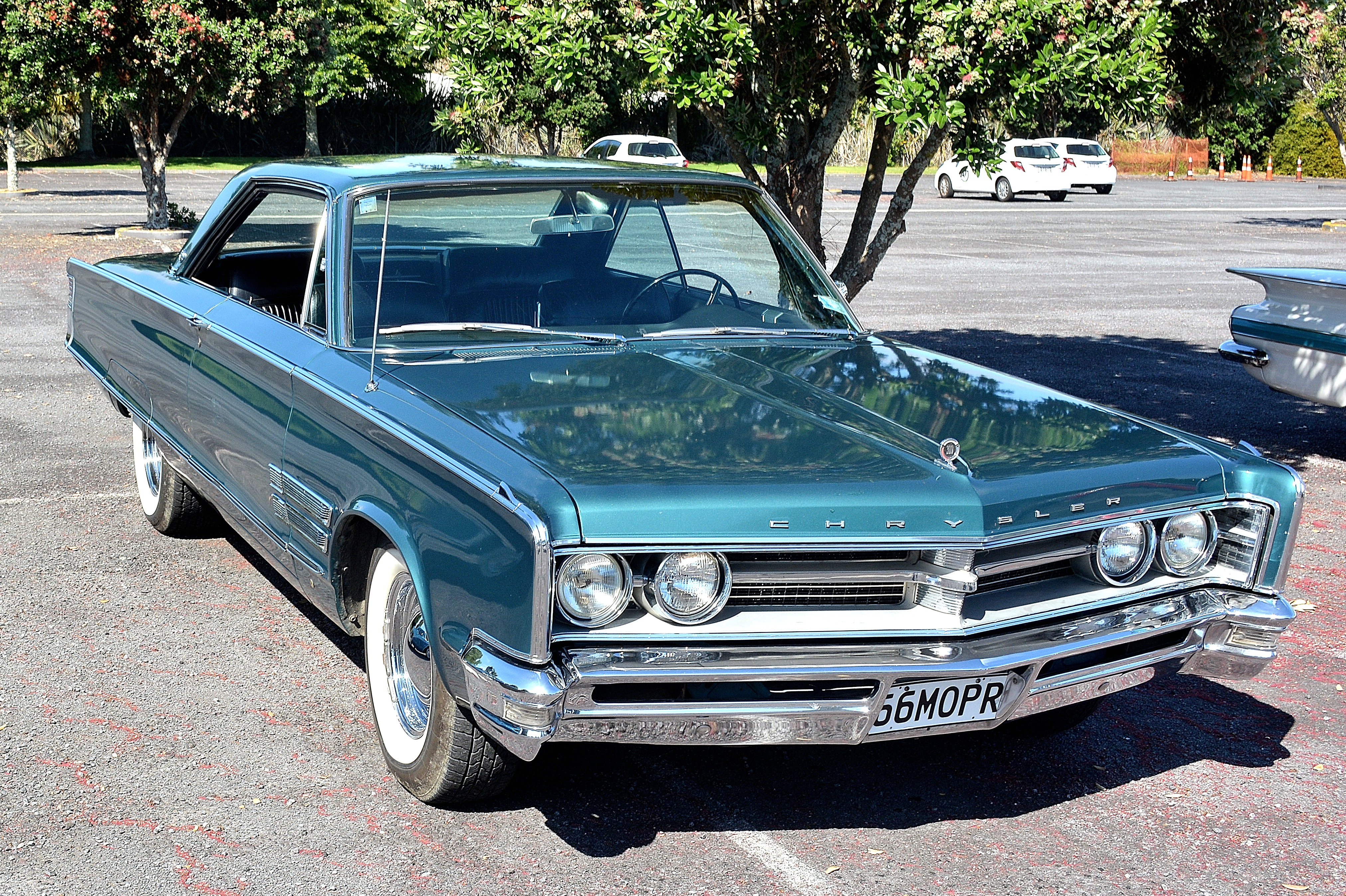 Smale Farm.Northcote,New Zealand